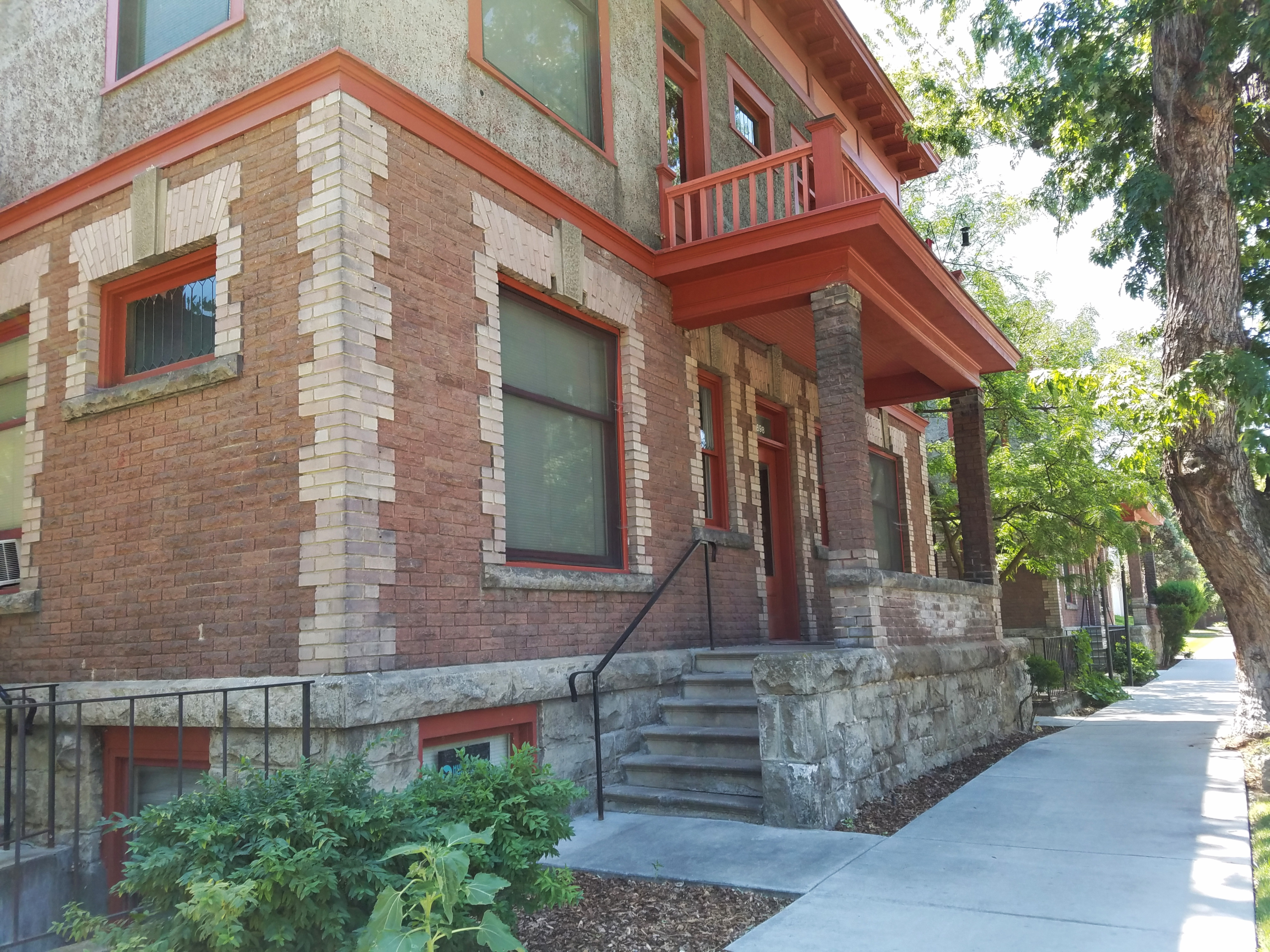 The A. V. Eichelberger apartment building (1910) in Boise, Idaho, was designed by Tourtellotte and Hummel and is listed on the National Register of Historic Places. The building is also part of the Fort Street Historic District.